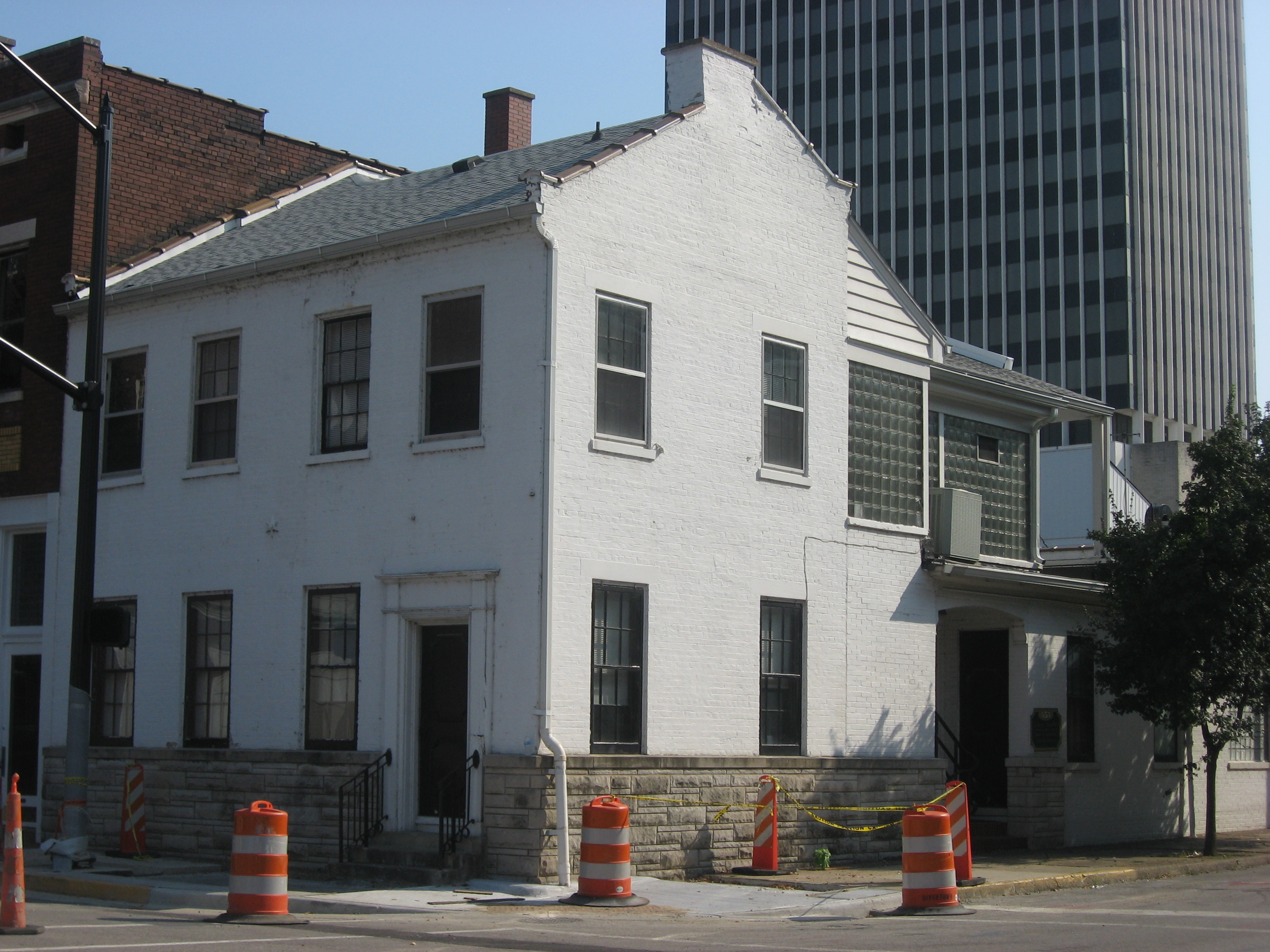 Front and northeastern side of the John H. Roelker House, located at 555 Sycamore Street in Evansville, Indiana, United States. Built in 1858, it is listed on the National Register of Historic Places.